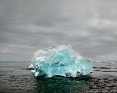 Photographic artwork from the Luminous Icescapes series by Andrea Hamilton